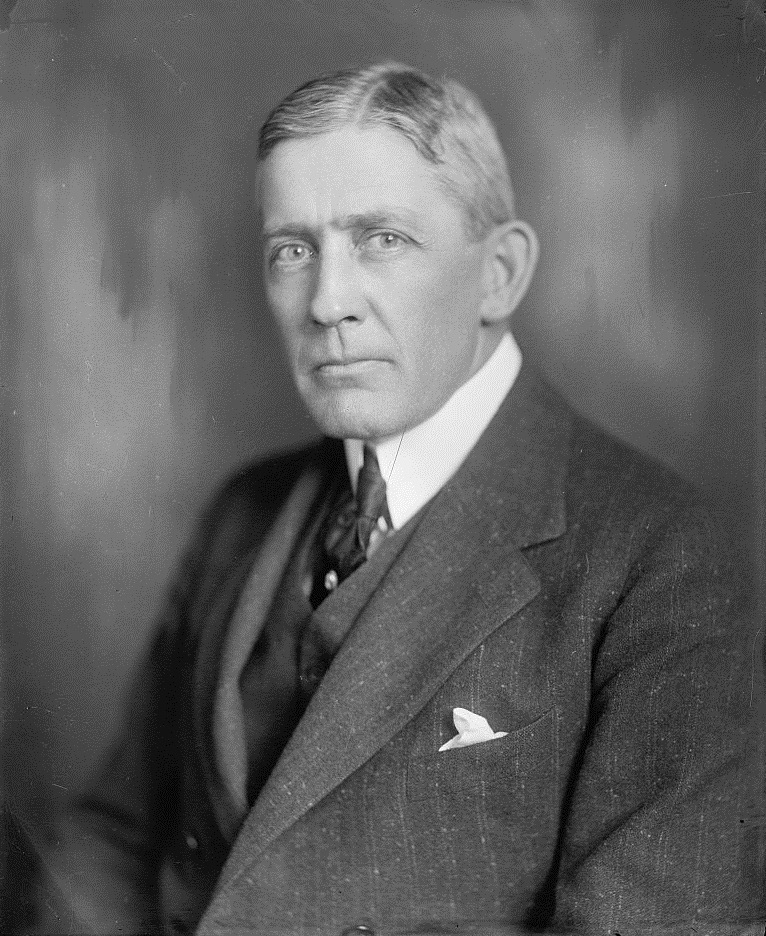 Charles A. Mooney, congressman from Cleveland, Ohio.